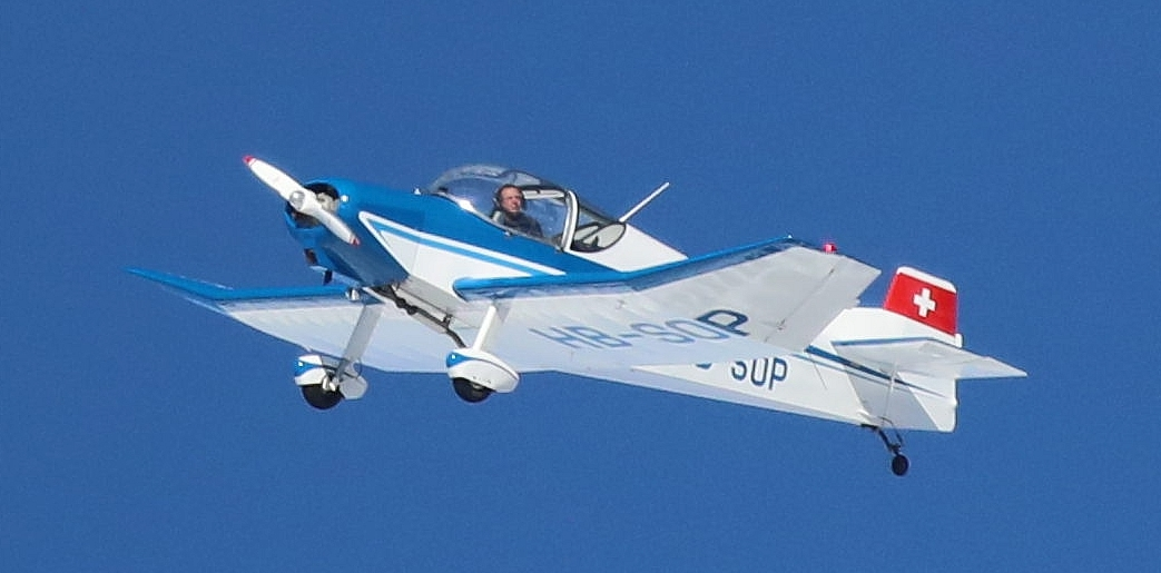 Impressions from Freestyle skiing – Snowboarding – Team Ski-Snowboard Cross at the 2020 Winter Youth Olympics in Lausanne on 21 January 2020.